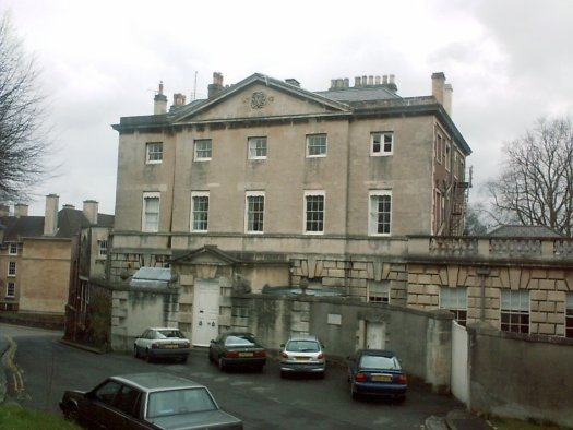 The "Old Clifton" section of Clifton Hill House, taken by me Category:Buildings and structures in Bristol Category:University of Bristol halls of residence